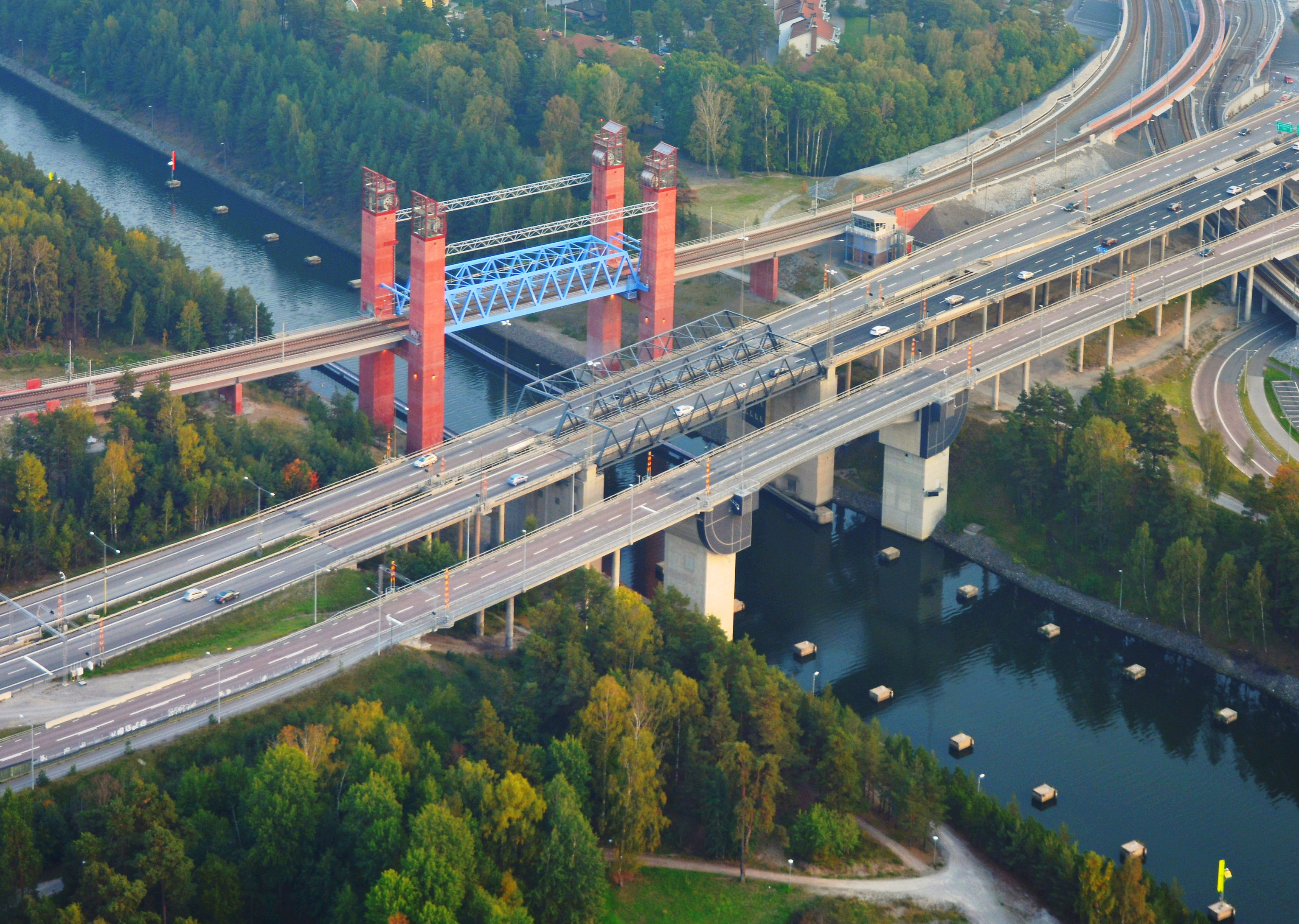 The bridges over Södertälje Canal in Södertälje, Sweden.